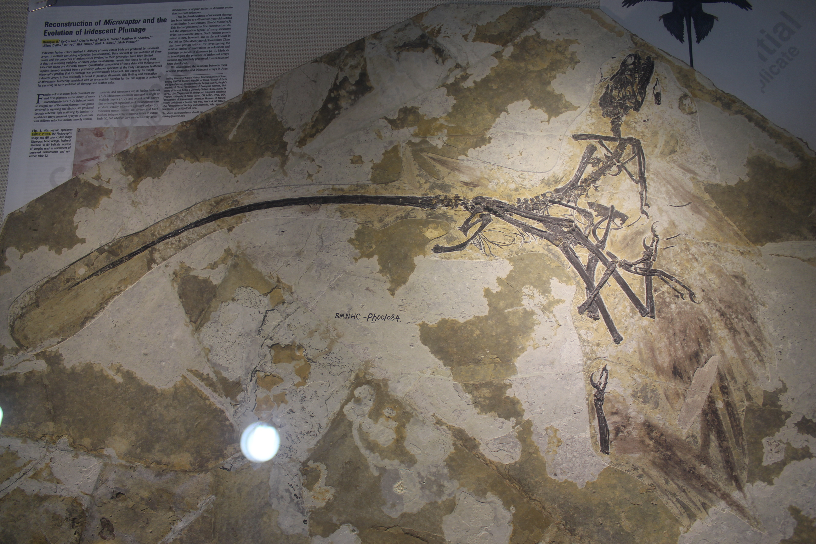 Fossil specimen of Microraptor gui on display at the Beijing Museum of Natural History.